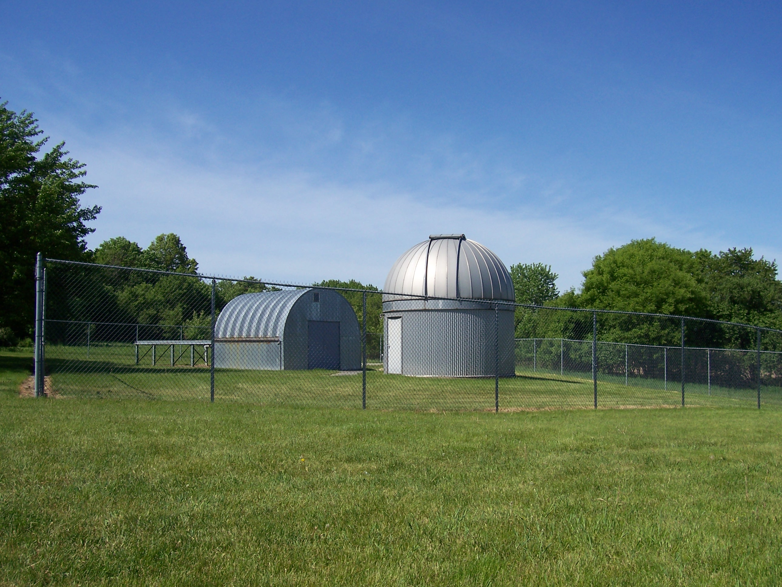 The Rochester Institute of Technology observatory